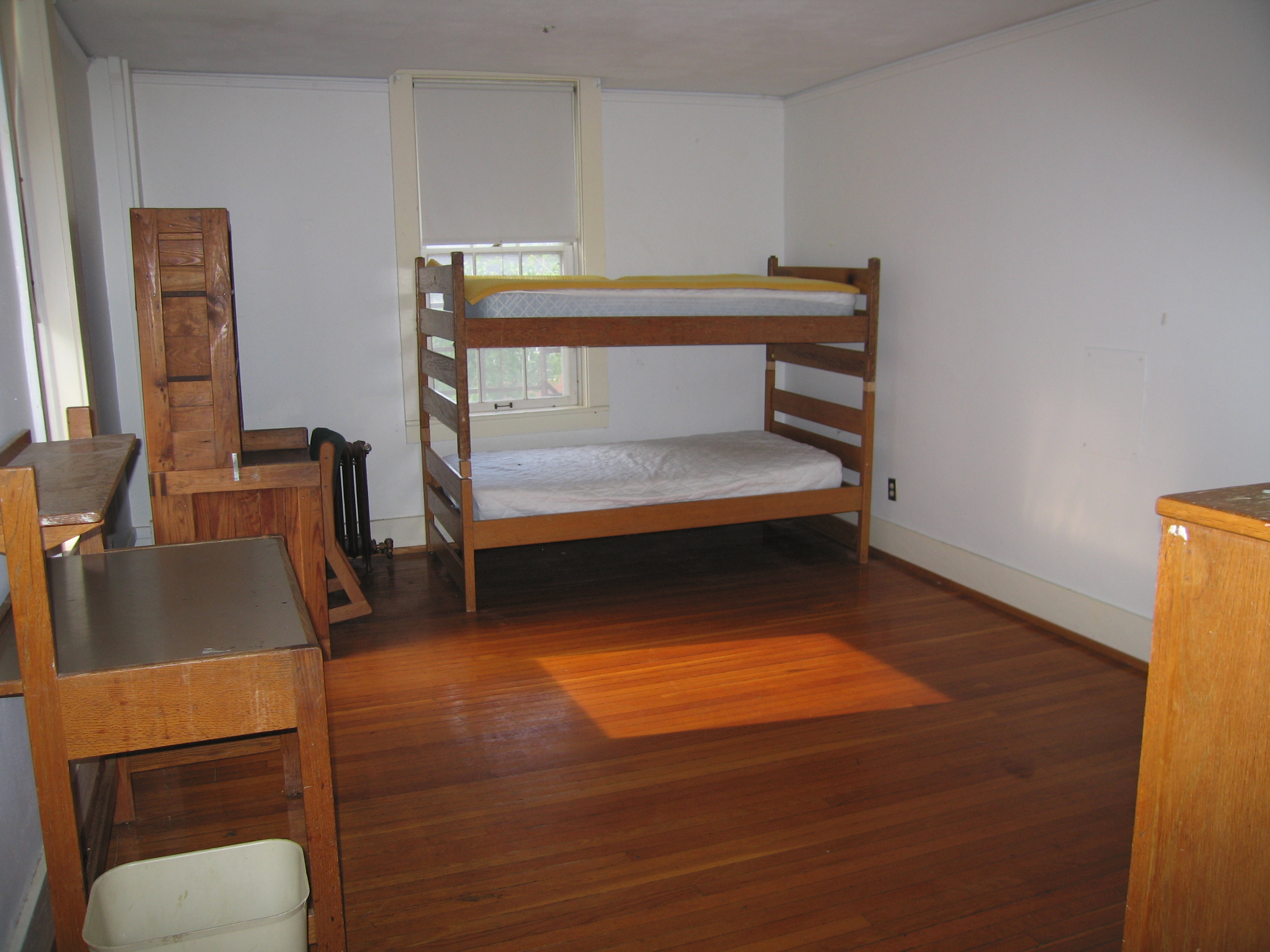 A typical room in the Athenaeum Dormitory at Western Reserve Academy, Hudson, Ohio, USA Photographer: Louis Tiemann